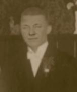 King of Araucania and Patagonia